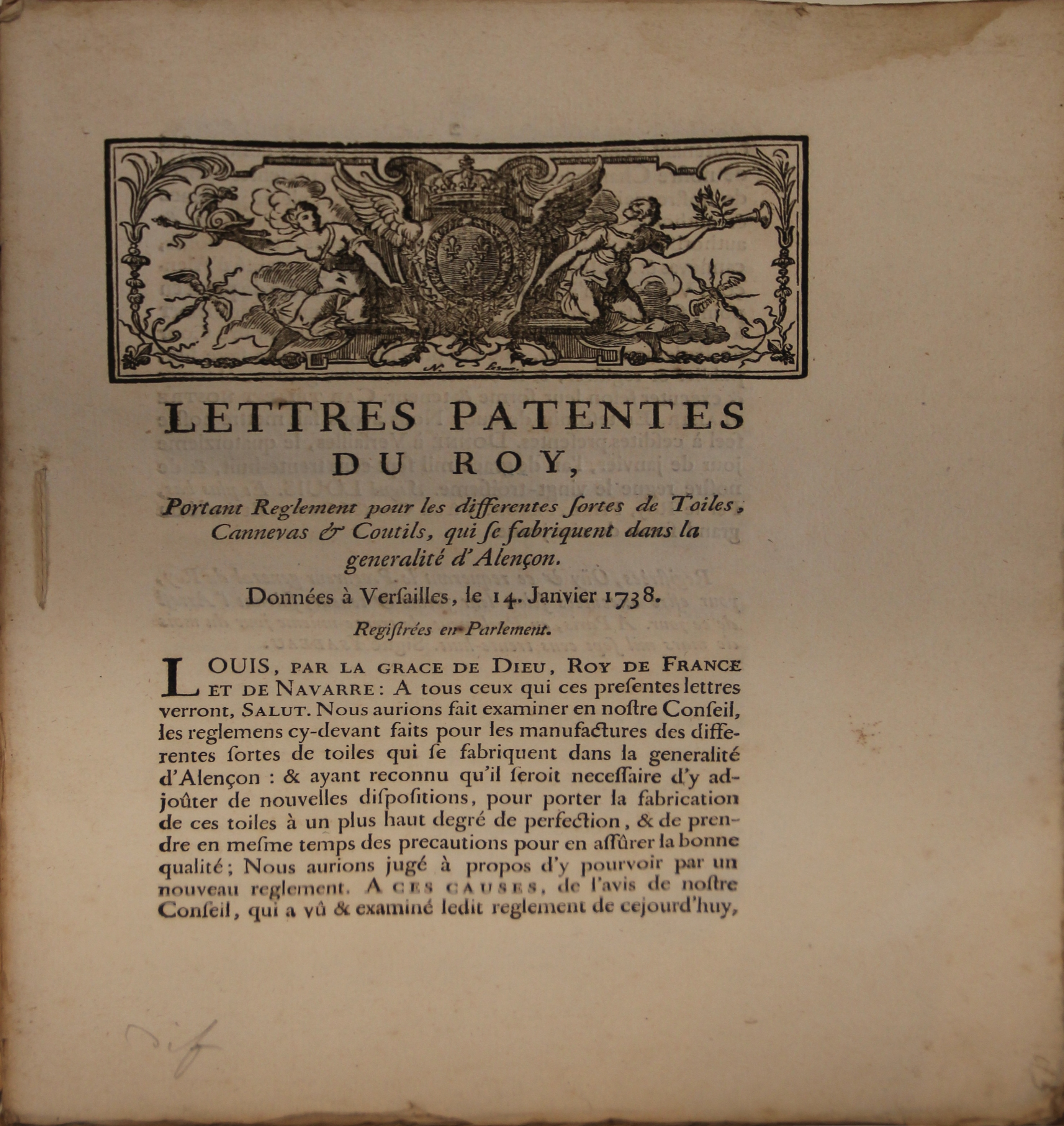 King Louis XV's decision regulating the production of some textiles in Perche, 1738. Seen at the Town museum, inside Saint John's Castle, in Nogent-le-Rotrou, Eure-et-Loir, France.